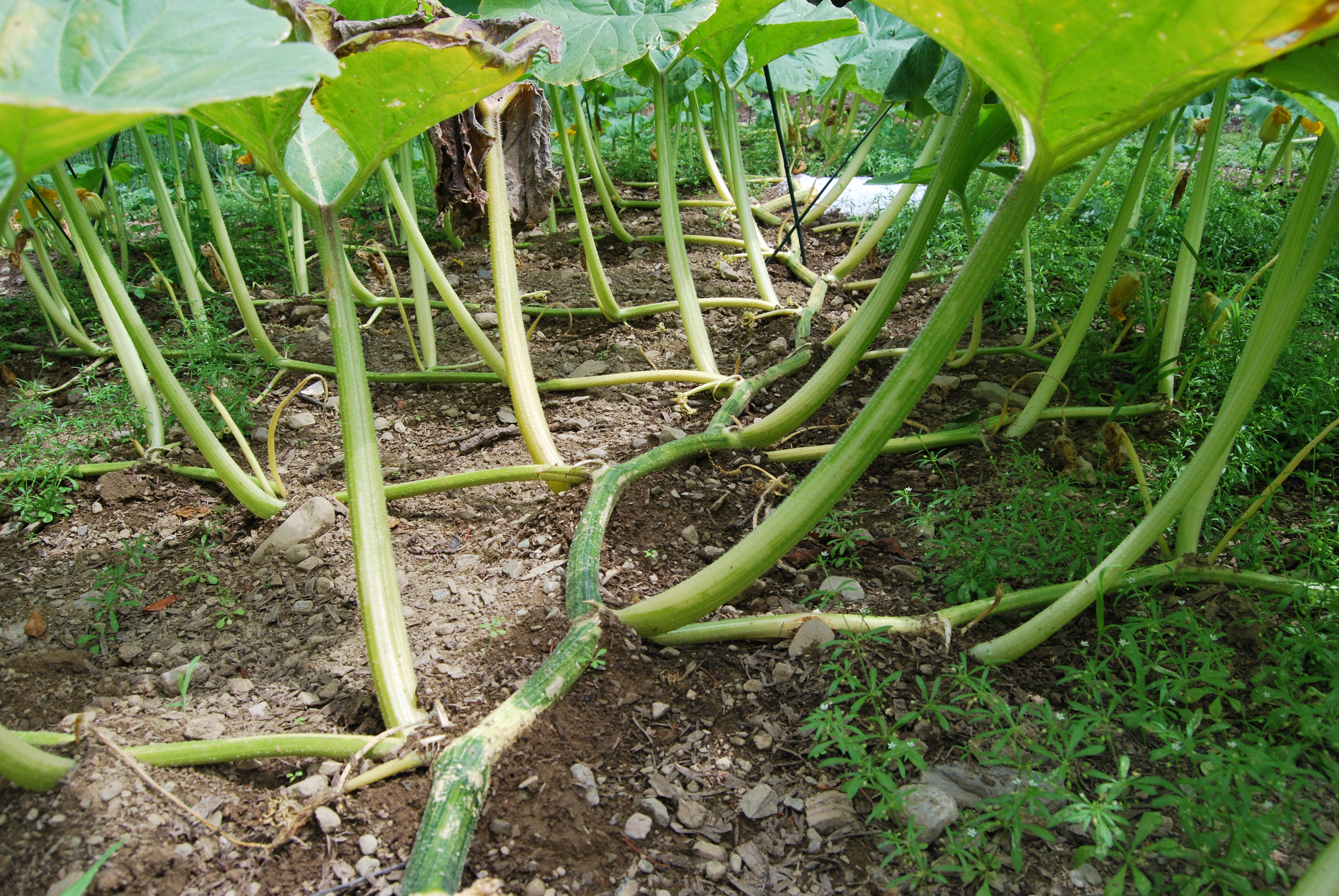 Vine and leaves of an Atlantic Giant (Cucurbita maxima) plant about 11 weeks after germination.